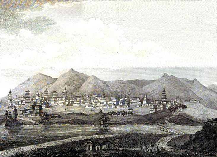 Engraving of Kathmandu skyline from the book "An Account of the Kingdom of Nepaul, Being the Substance of Observations Made During a Mission to that Country, in the Year 1793", by Col Kirkpatrick, published in 1811.